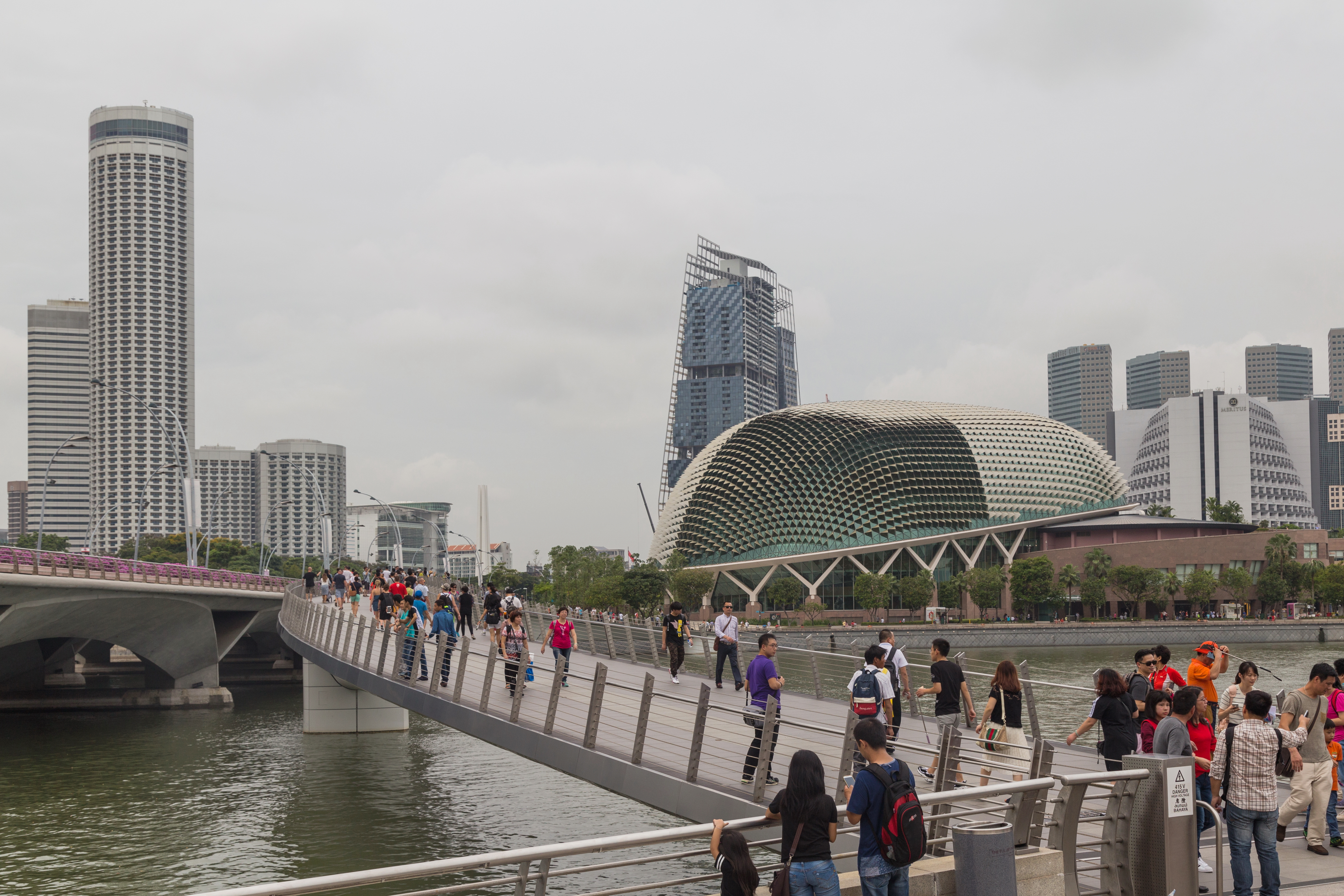 Jubilee Bridge. Downtown Core, Central Region, Singapore.